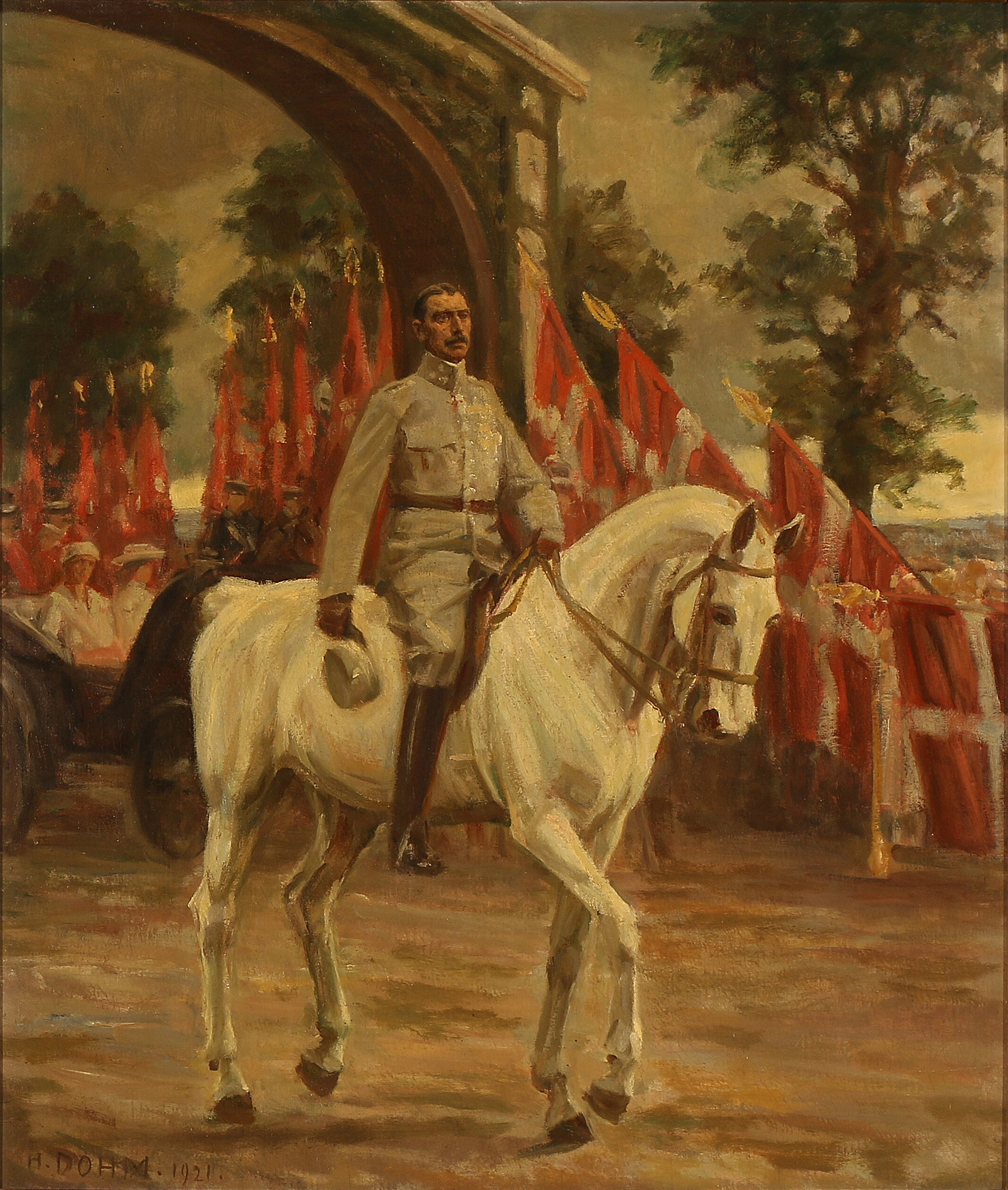 The Danish King Christian X rides across the old border at the reunion between Denmark and Northern Schleswig in 1920. This may be a study for the final version of the painting, which is part of the Royal Collection. In the final version, the signature (bottom left) is spread over two lines, and persons in the background are identifiable as members of the Royal Family.